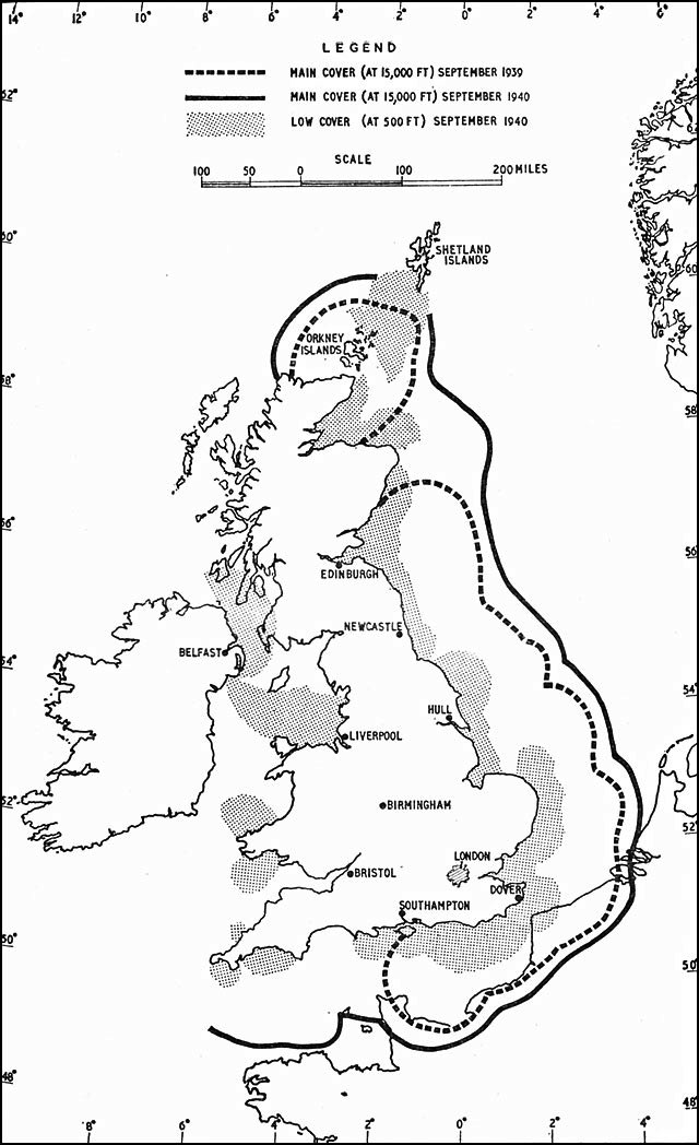 RADAR COVER, SEPTEMBER 1939 AND SEPTEMBER 1940